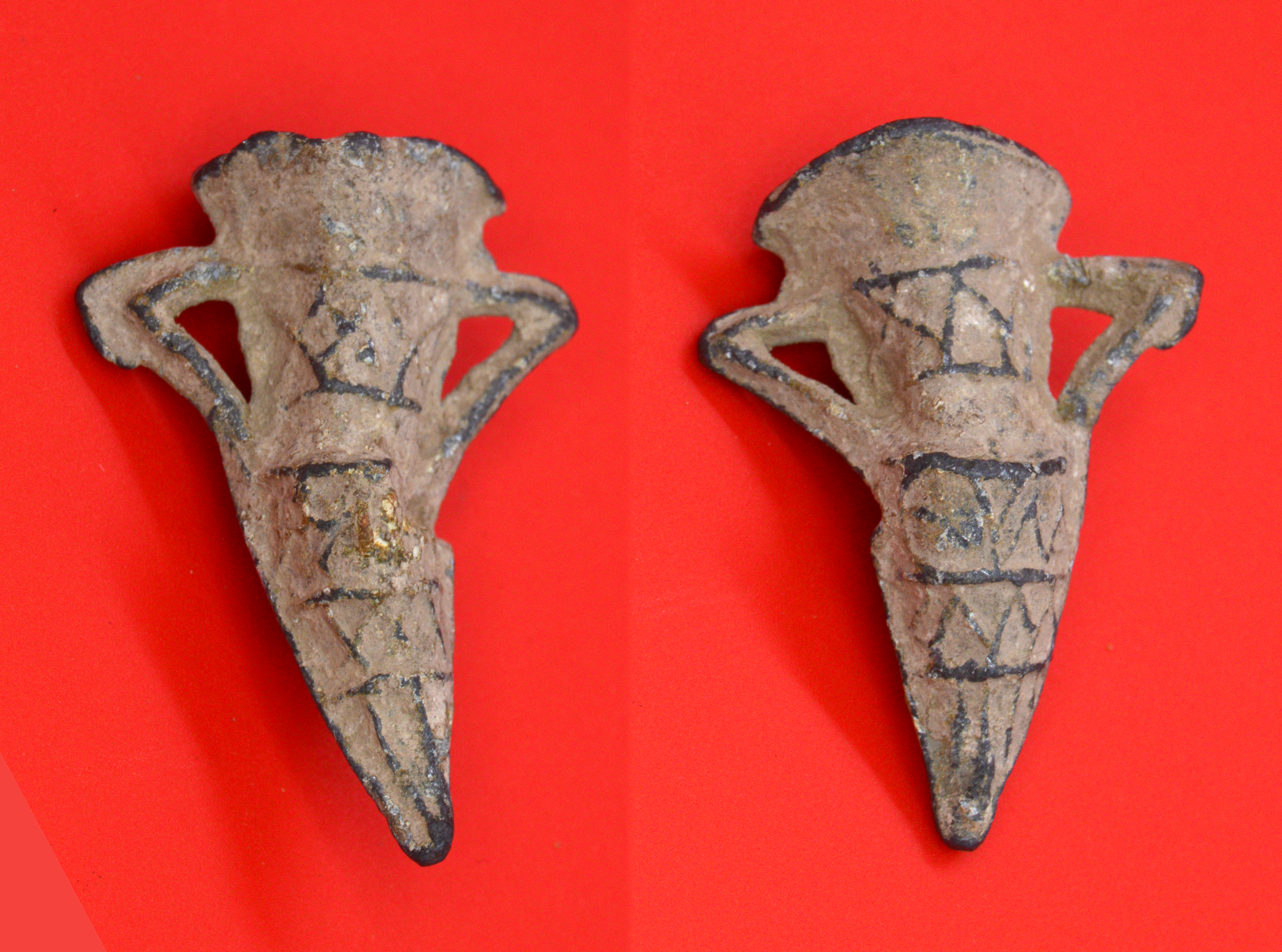 Ancient Roman Holy Land 1st-3rd century AD lead pilgrim's votive amphora "Ampulla" made in the form of a miniature Roman transport amphora to be brought back from a sacred place as a souvenir usually containing Holy water from that source. Gray patina with light earthen deposits; 45 mm (1.77") high by 32 mm (1.26") wide at the handles. (Both sides shown)